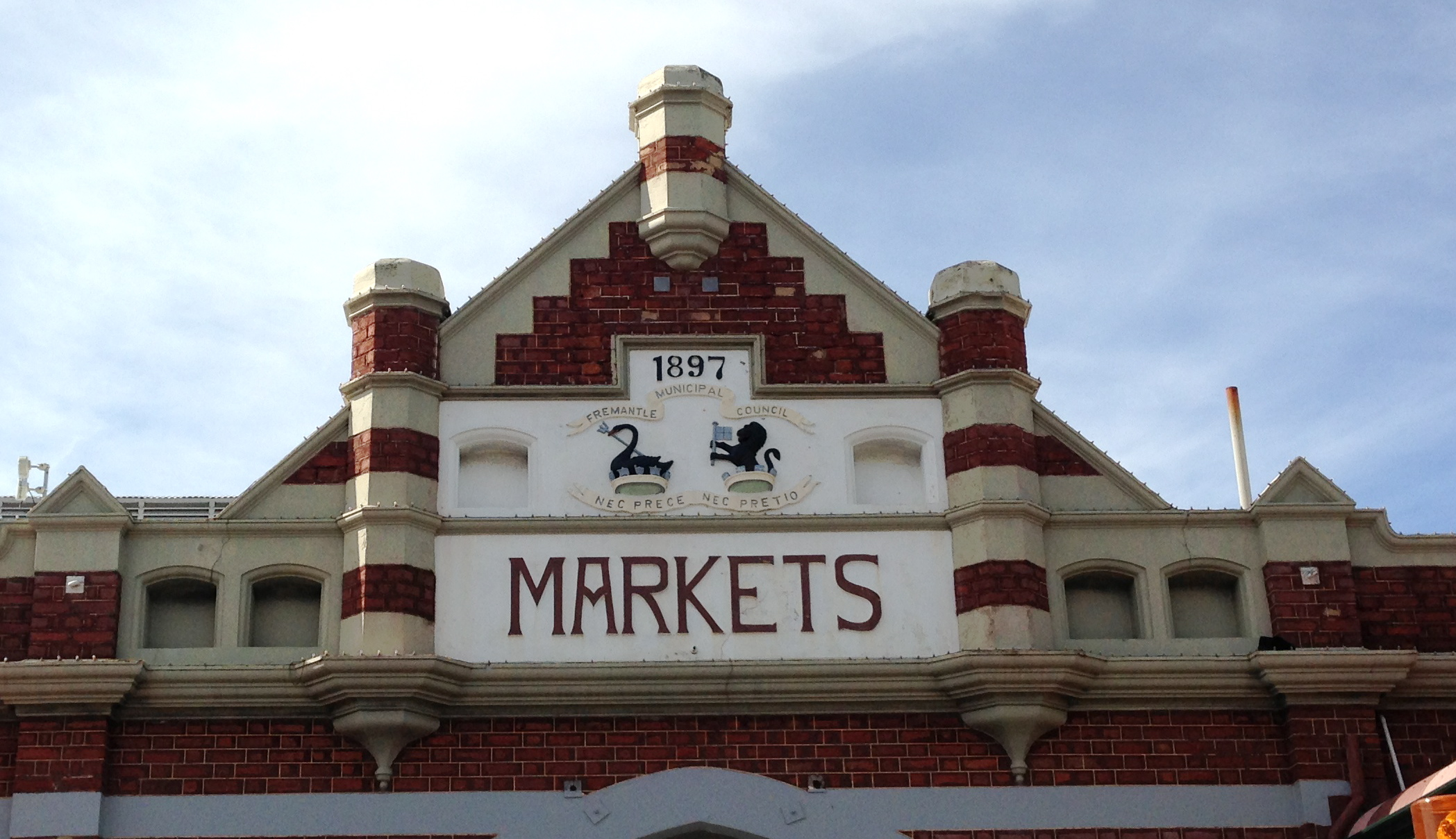 Sign on western upper part of the Fremantle Markets building, Fremantle, Western Australia, September 2013